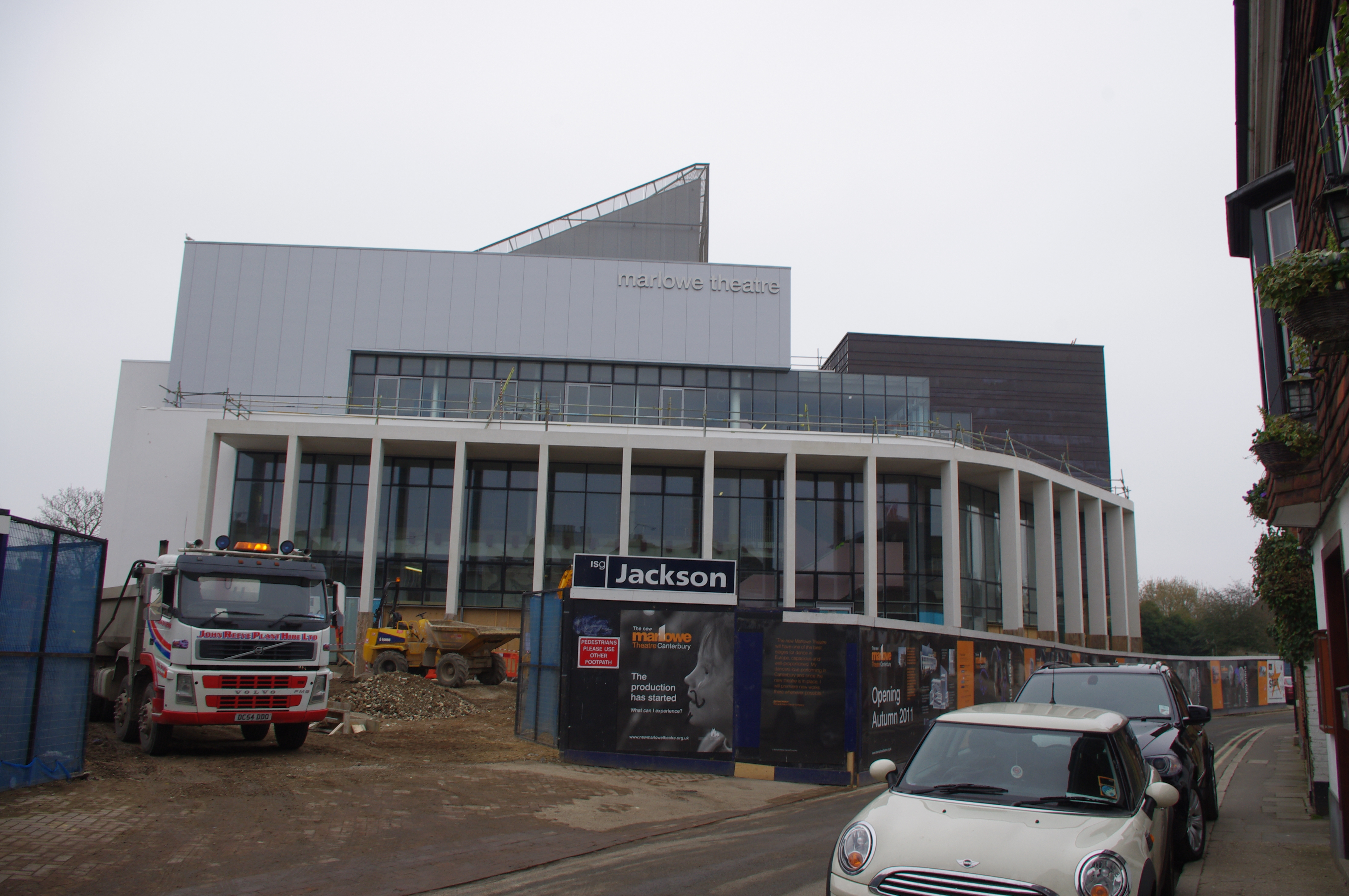 The redevelopment of the Marlowe Theatre in Canterbury, Kent as seen in mid March 2011.